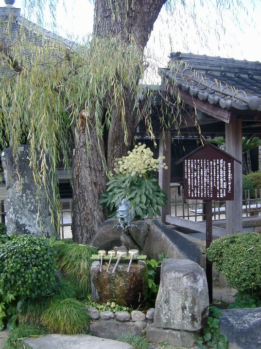 Suhobei took this picture in Yanai city in December 2002.